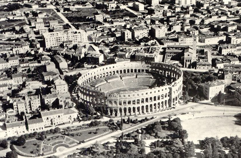 Old aerial photo of Pula